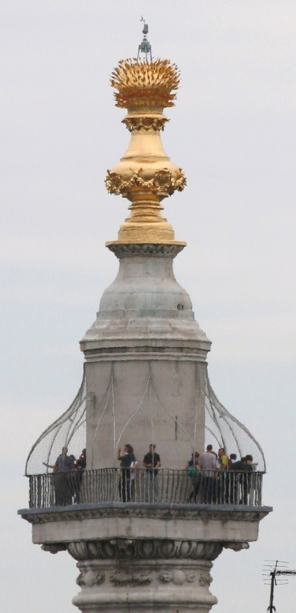 View of top of the Monument from Poultry. 6 Aug 2009. Own image.